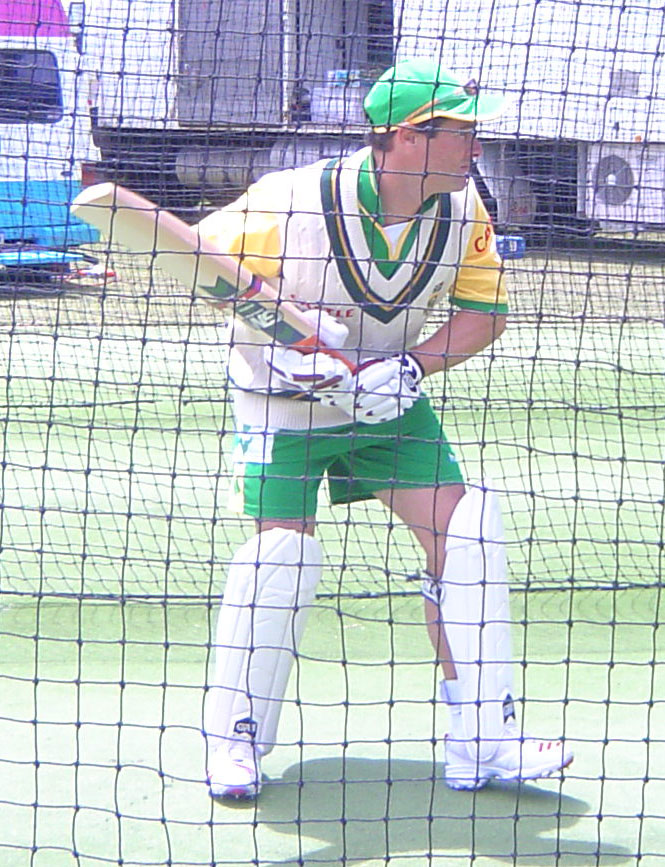 Cricketer Mark Boucher practising in the nets. Cropped from Image:Boucher 2005 003.jpg. Original photo by Julian Berzins.